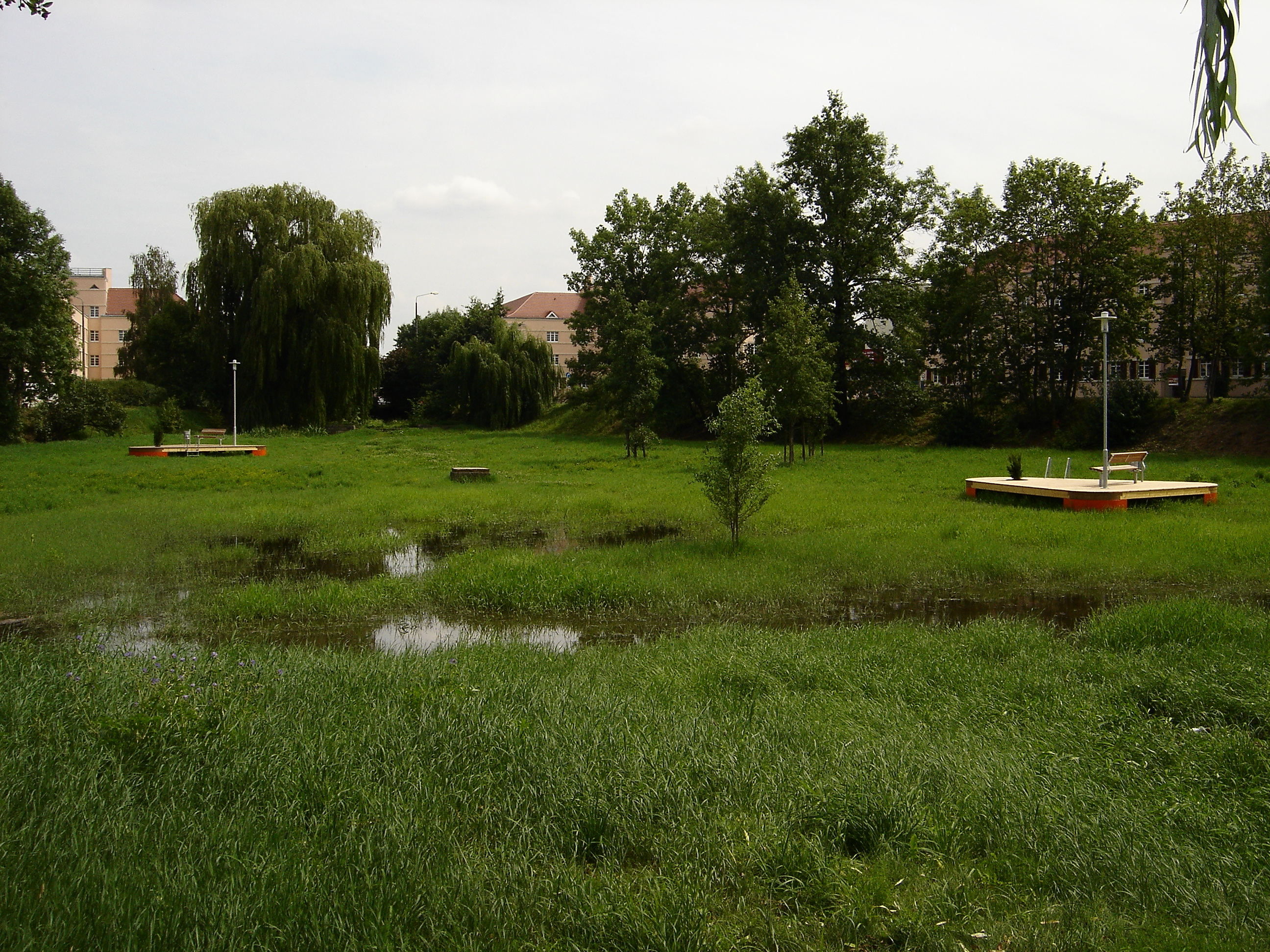 Hugo Bürkner Park in Dresden-Strehlen (flood detention basin)